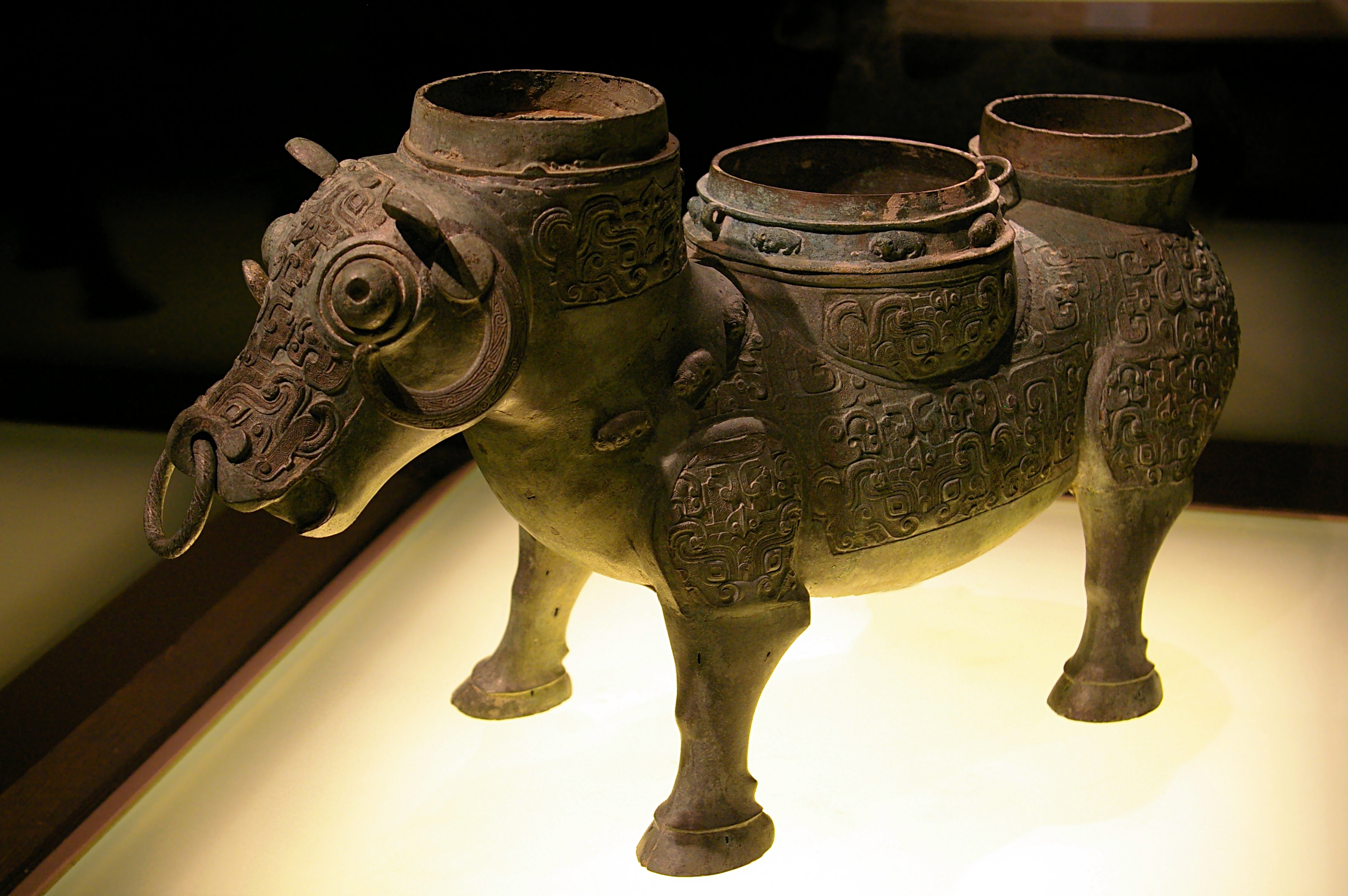 Carving Zun : bronze wine vessel in the shape of an ox, late Spring and Autumn Period (early 6th cent - 476 BCE), in the Shanghai Museum. Other source date it from the period of Warring States (mid.4th cent.-221B.C). Height : 120mm Width : 210mm Weight :1.5kg